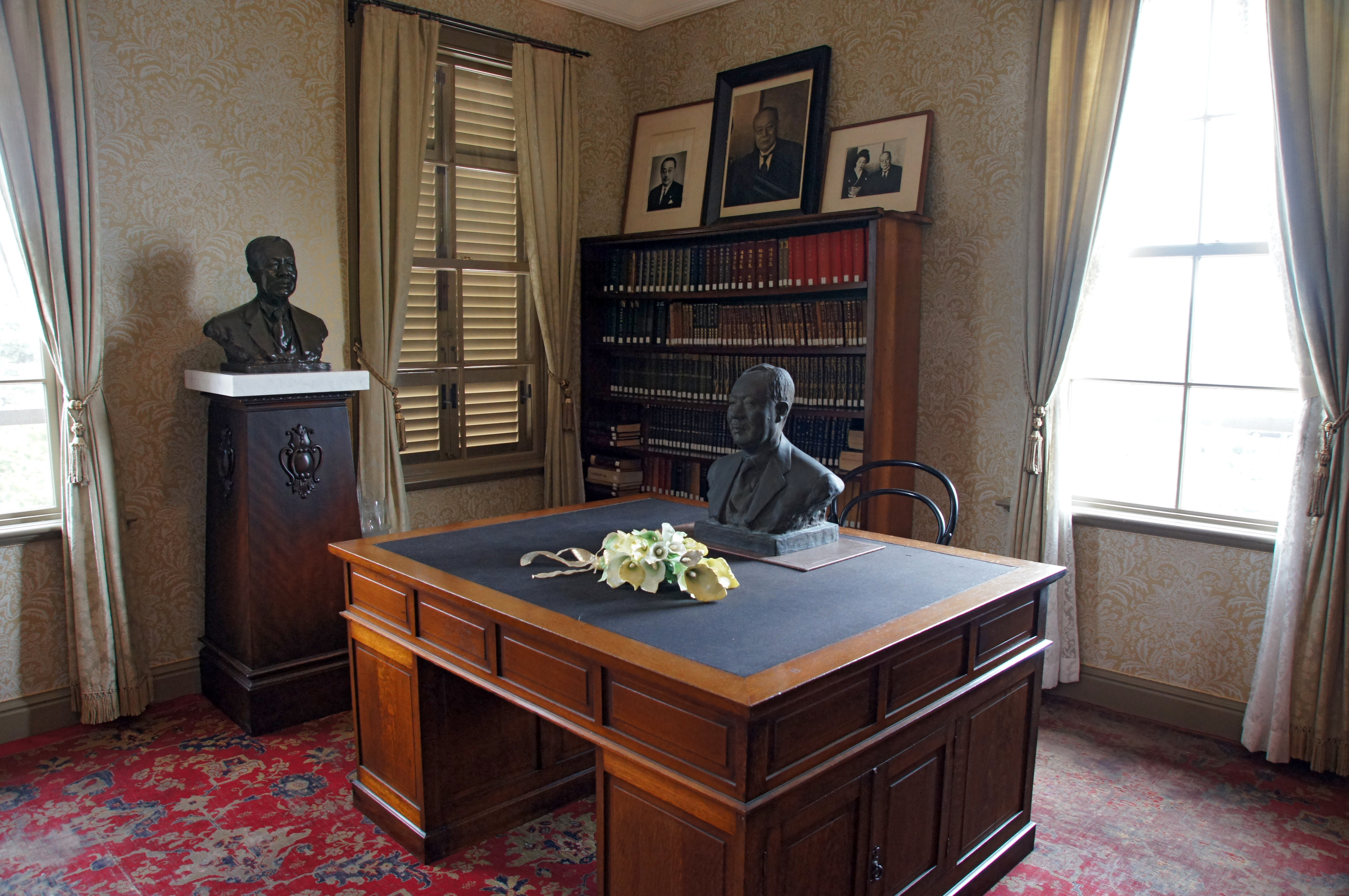 Former Muto Villa in Kobe, Hyogo prefecture, Japan